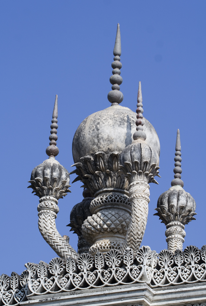 India, Andhra Pradesh, Hyderabad, Paigah tombs Stucco work detail Pineapple shape